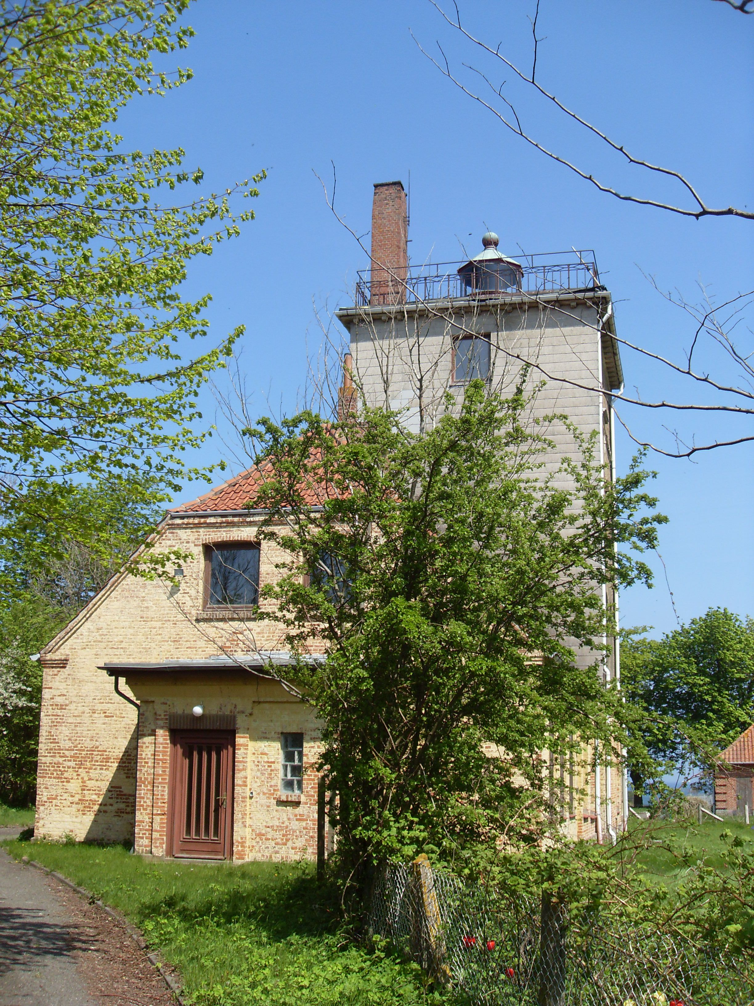 The old Lighthouse Marienleuchte (1831/32)